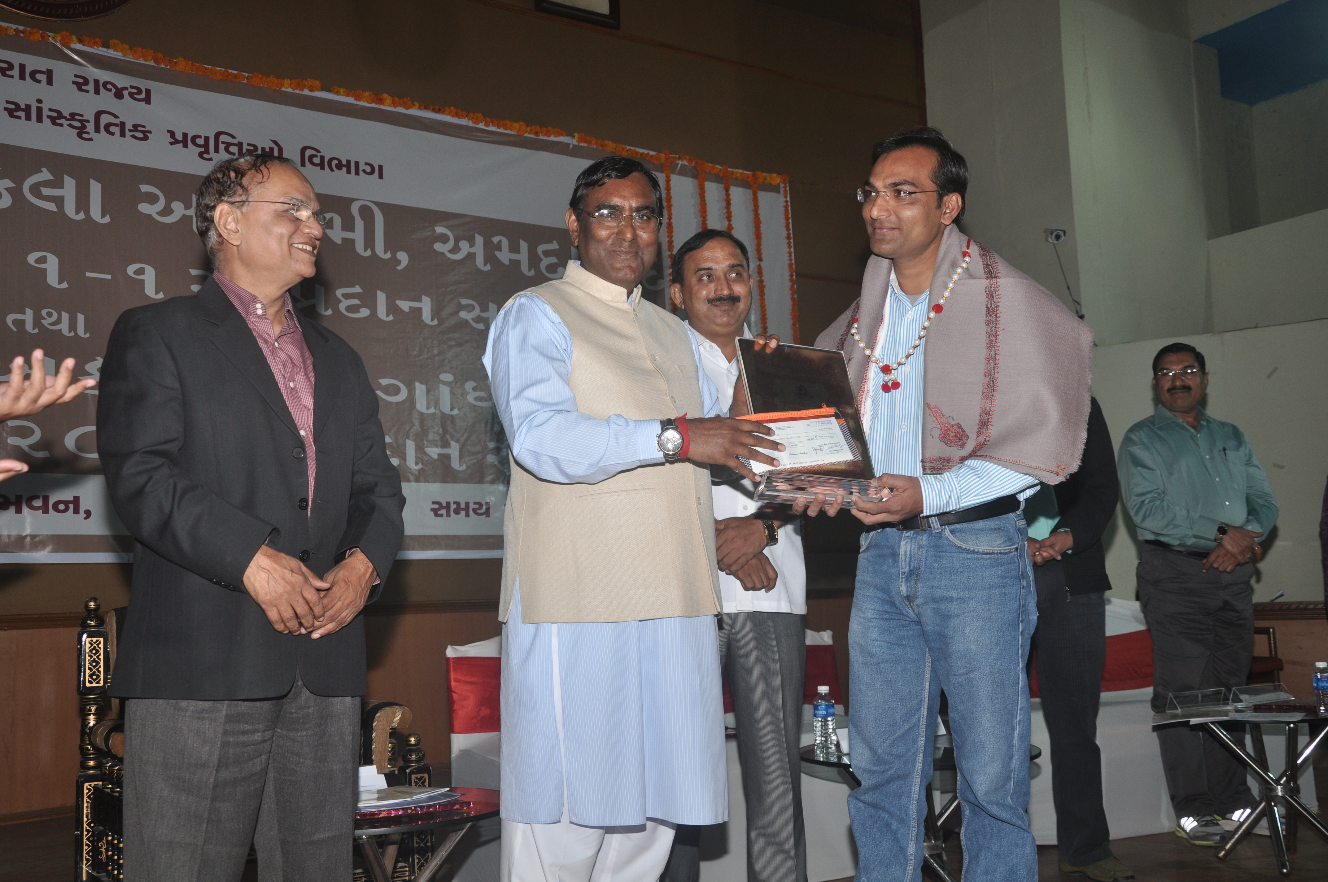 Ashok Chavda at Ahmedabad on the event of Yuva Gaurav Puraskar ceremony - 2012